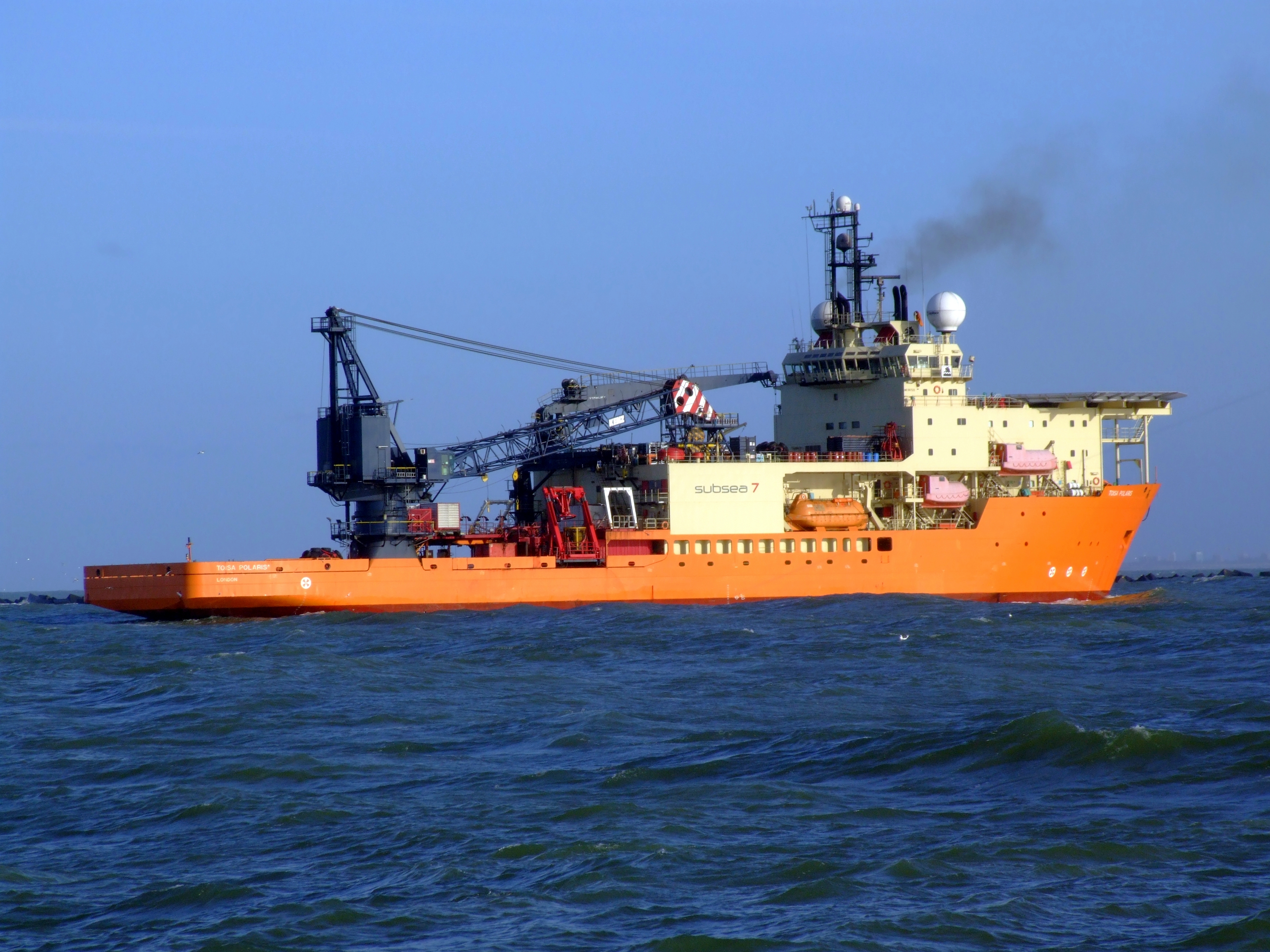 Photographed at Port of Rotterdam, The Netherlands